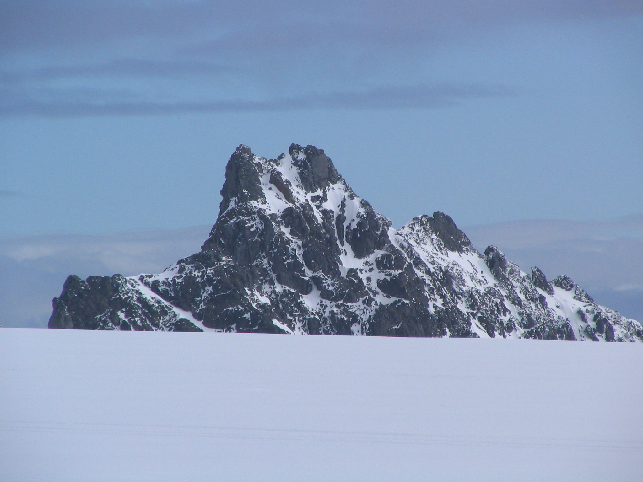 Castellvi Peak rising up from the glacier